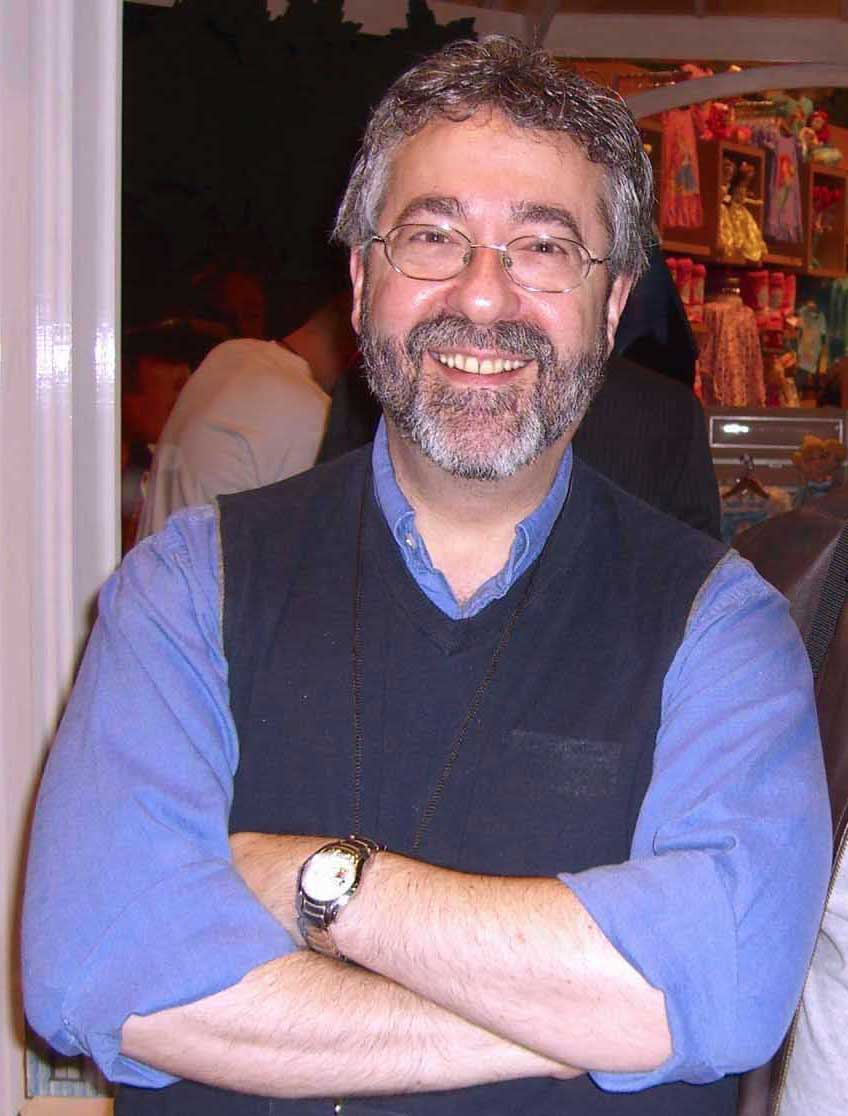 Video game designer Warren Spector, at the November 30, 2010 launch party for the Disney video game Epic Mickey at the Times Square Disney Store in Manhattan. Warren was the designer of Epic Mickey, his first project for Disney Interactive. Photographed by Luigi Novi. This photo is not in the public domain. It may, however, be used, modified and published for any purpose, only if an easily visible credit to the photographer is placed near the photo in each instance in which it is used. (See licensing information below.) Publication of this photo without this proper attribution constitutes copyright infringement. For more information on my photos, you can contact me here.